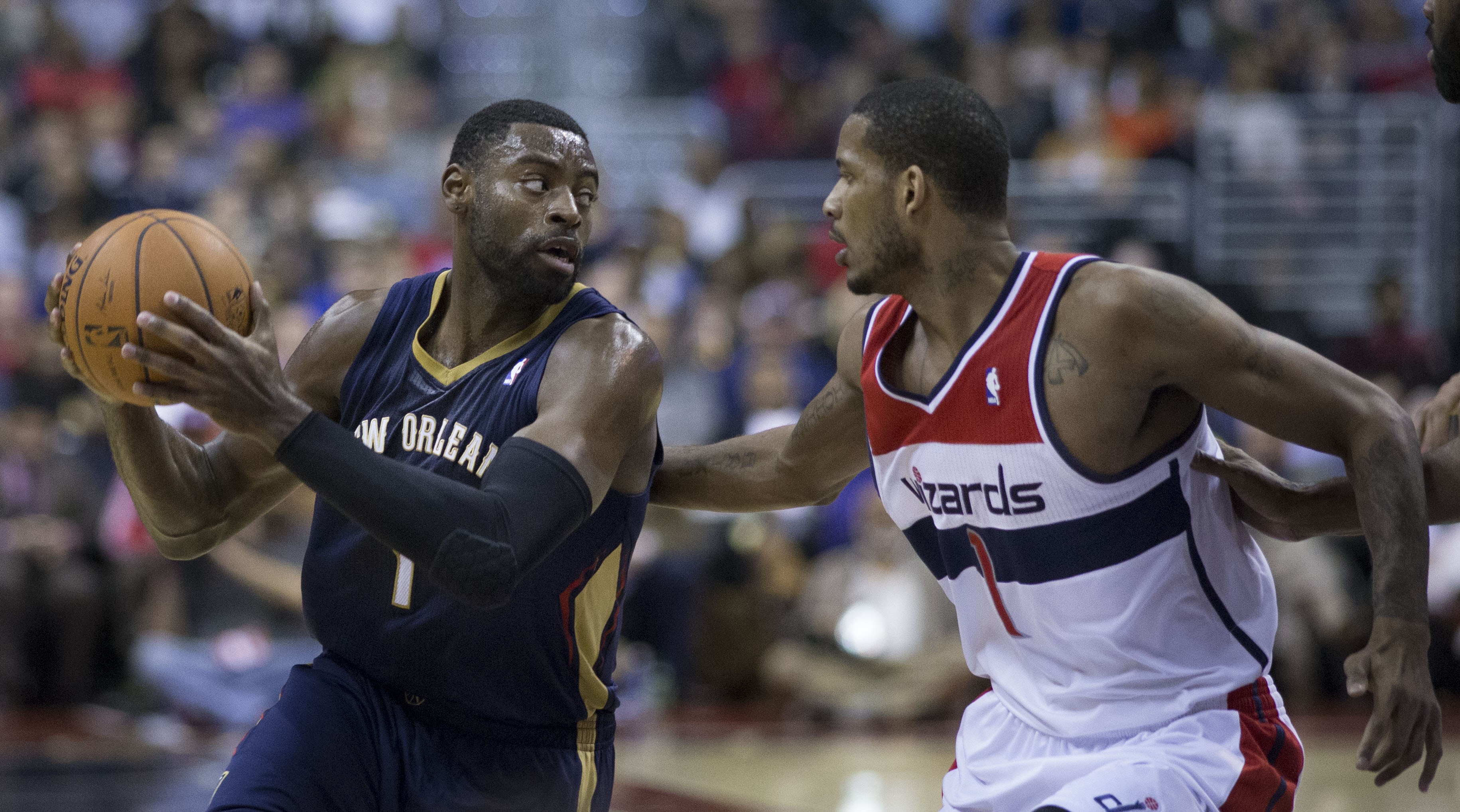 Pelicans at Wizards 2/22/14